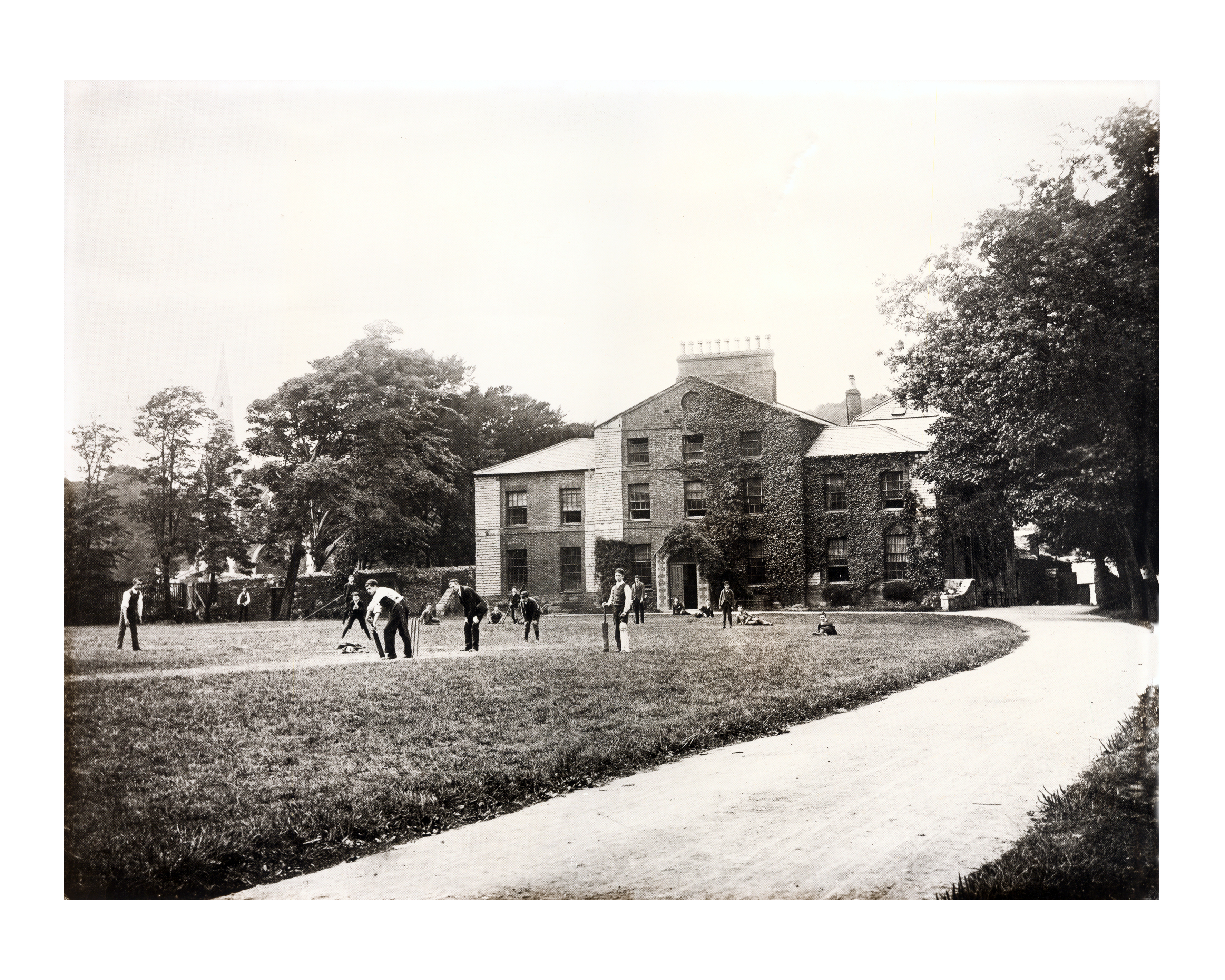 Illustration of Friars School, Bangor, Wales building of 1789-1900. Taken from Barber & Lewis (1901), 'The History of Friars School'.